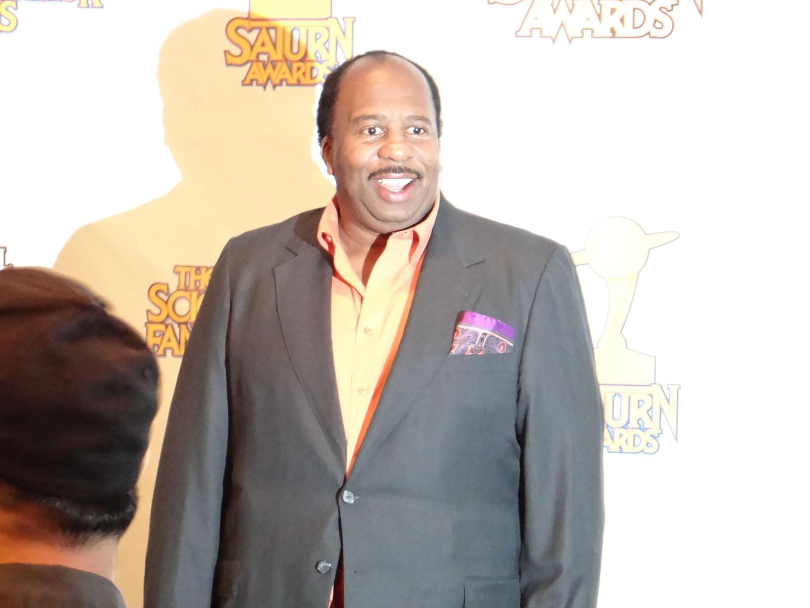 38th Annual Saturn Awards - Leslie David Baker aka Stanley from the Office